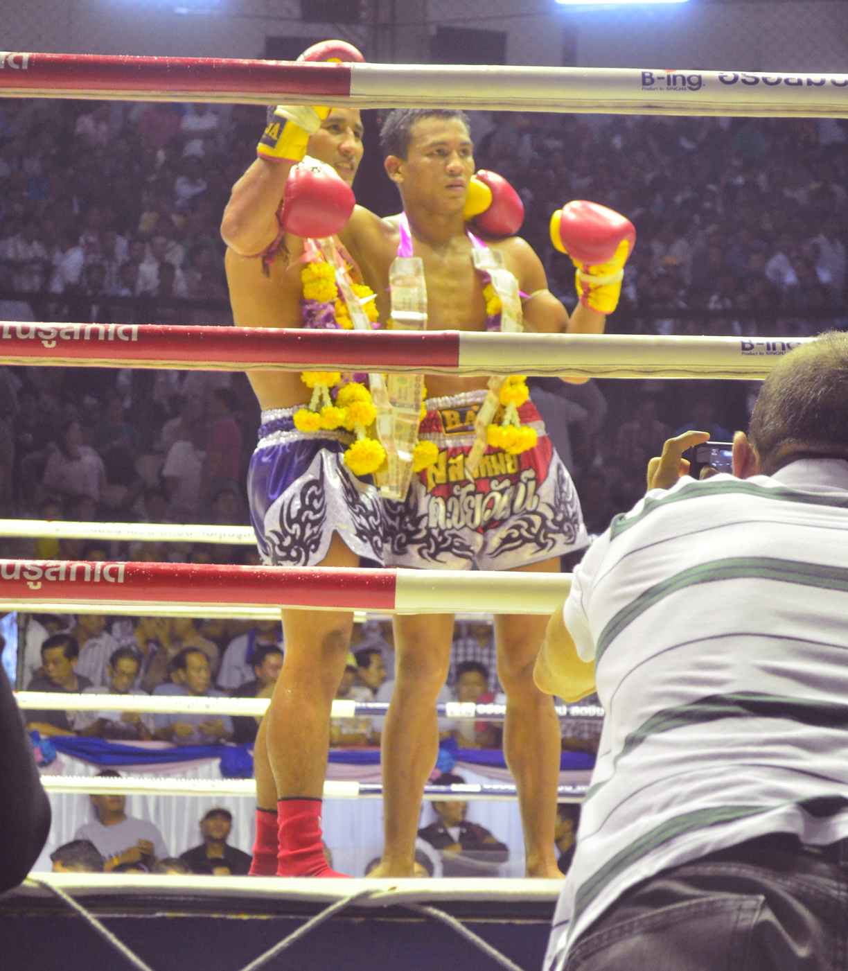 Pettawee & Seksan